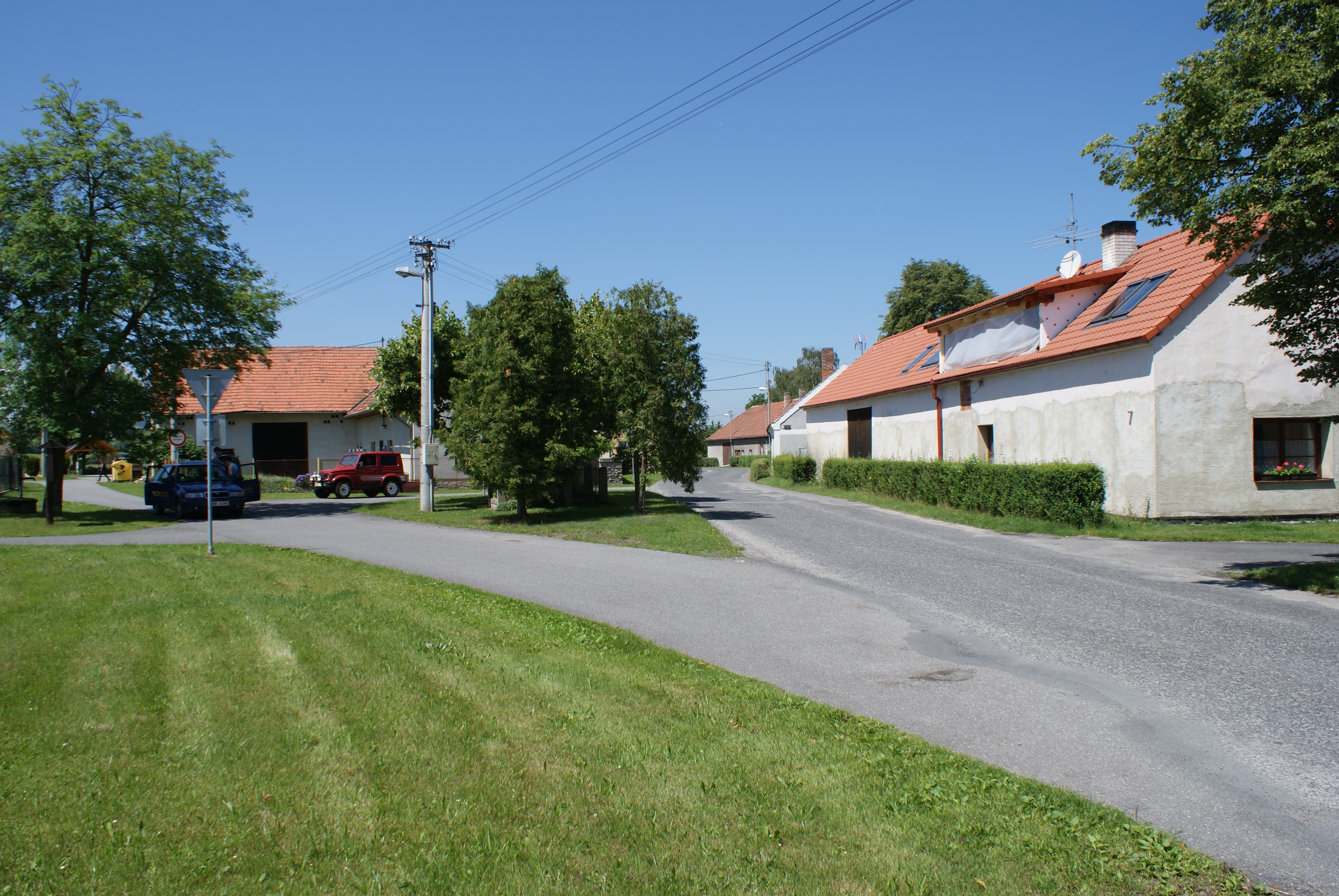 Přeborovice, a hamlet of Čejetice a village in Písek district, Czech Republic, the village common.